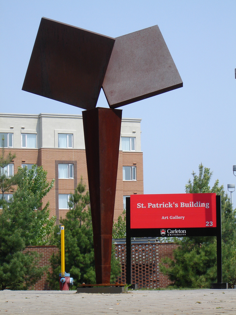 Sculpture Wings (1972) by Gordon Smith at Carlton University in Ottawa/Canada.